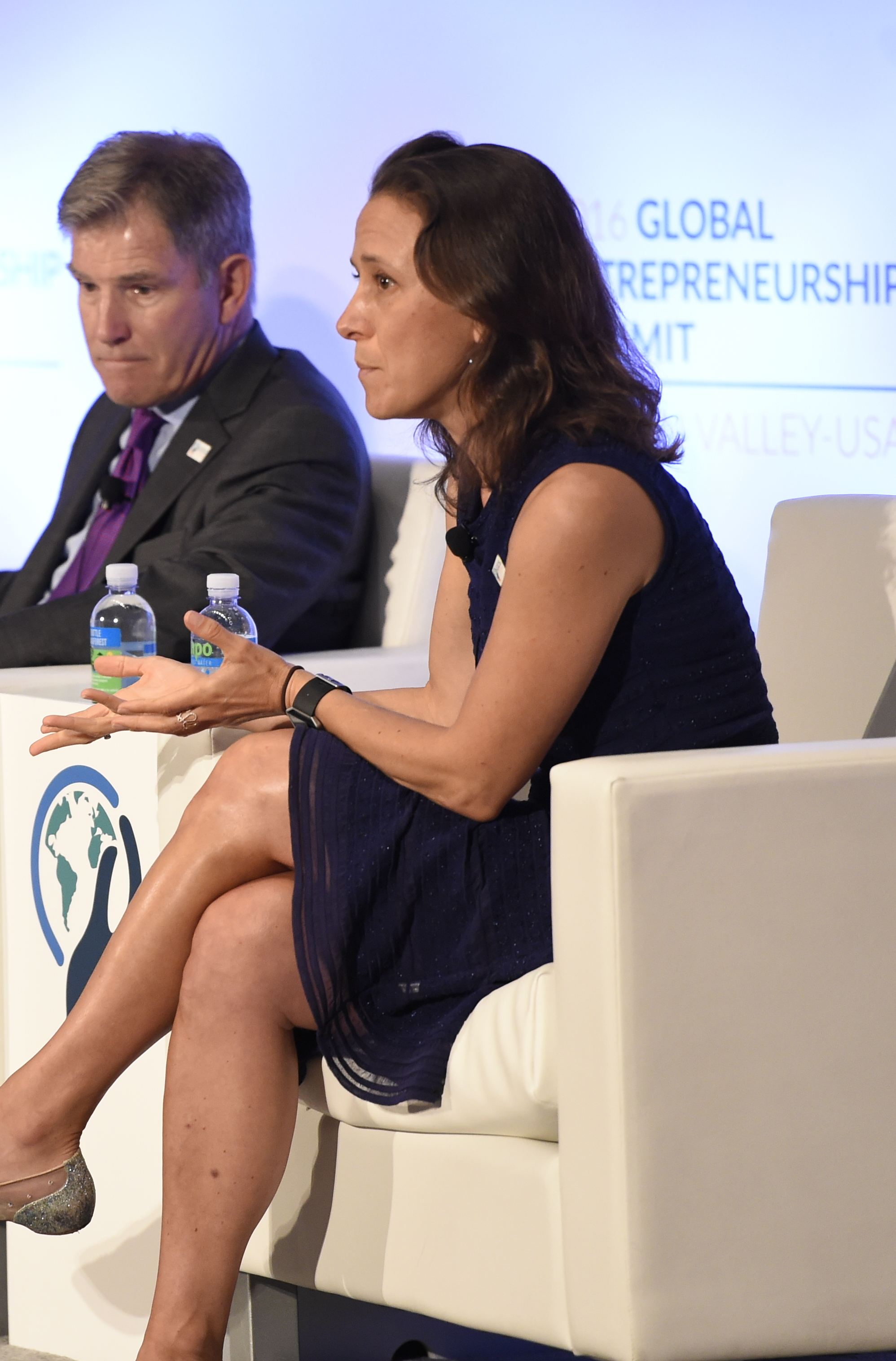 Rob Nail, Associate Founder and CEO, Singularity University; Anne Wojcicki, CEO and Co-Founder, 23andMe; and Steve Ciesinski, President, SRI International speak at the Global Entrepreneurship Summit, held on June 22-24, 2016 at Stanford University in Palo Alto.